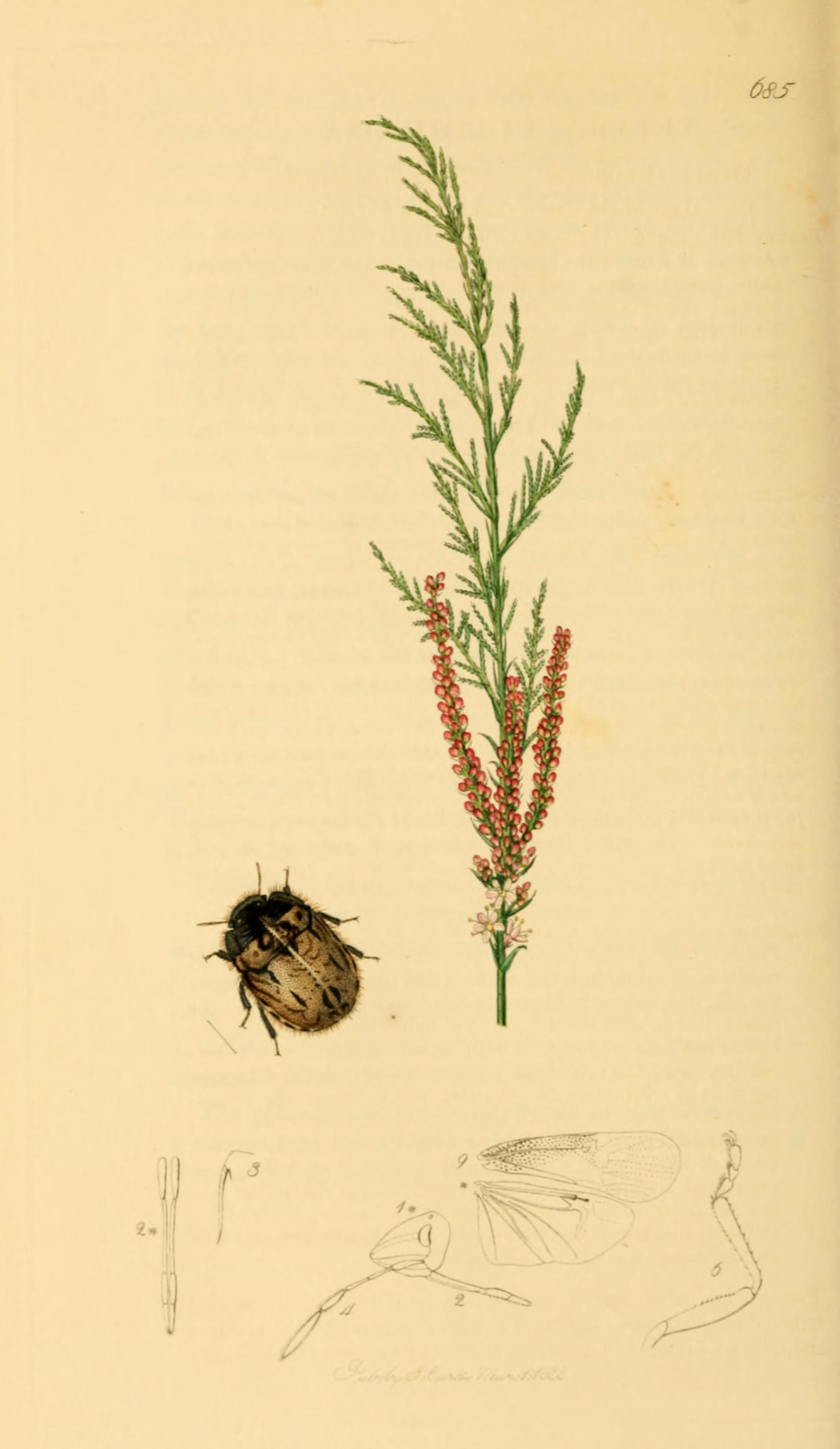 Tetyra fuliginosa Synonym Odontoscelis fuliginosa